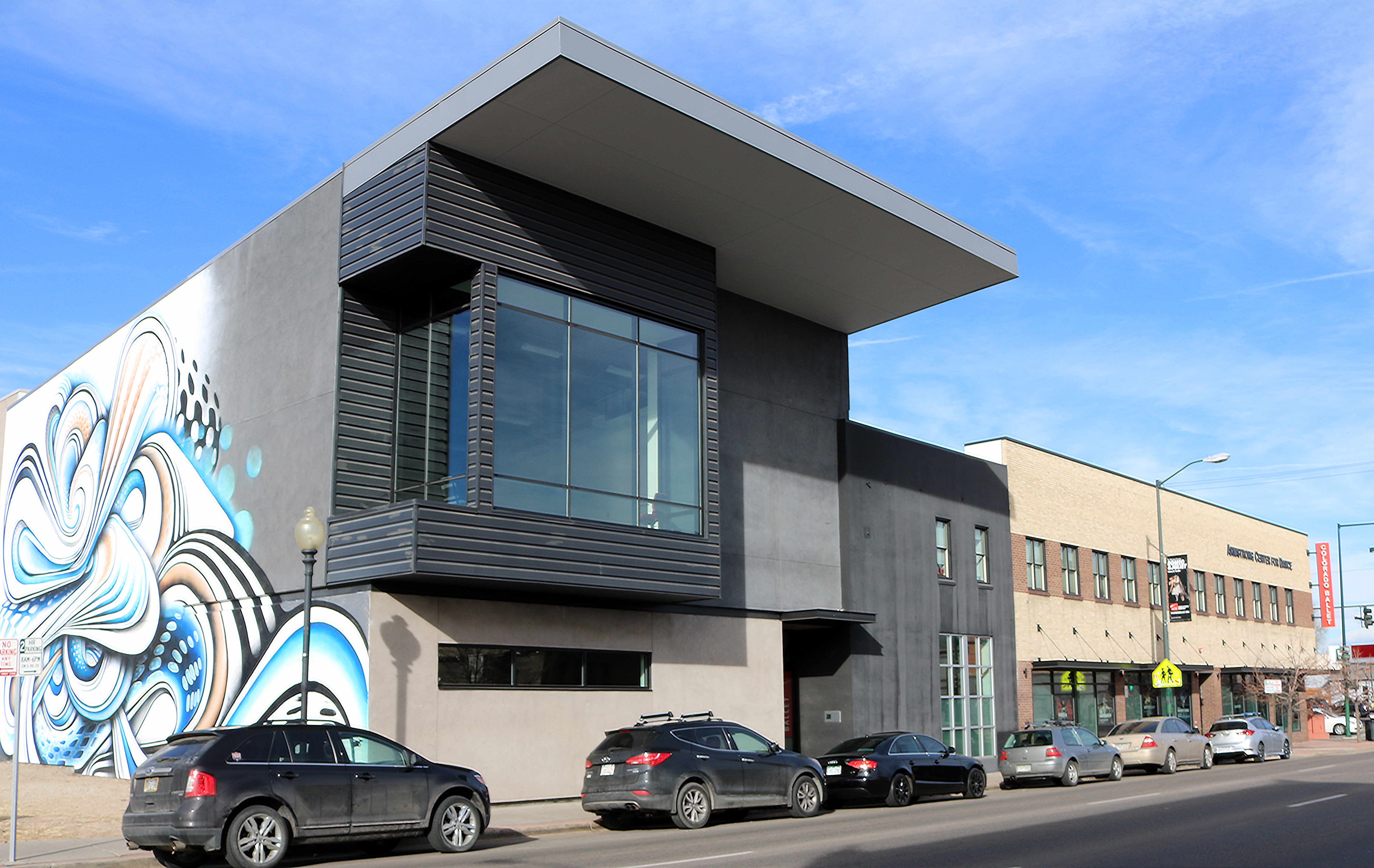 The home of the Colorado Ballet, including The Armstrong Center for Dance, located at 1075 Santa Fe Drive in Denver, Colorado.